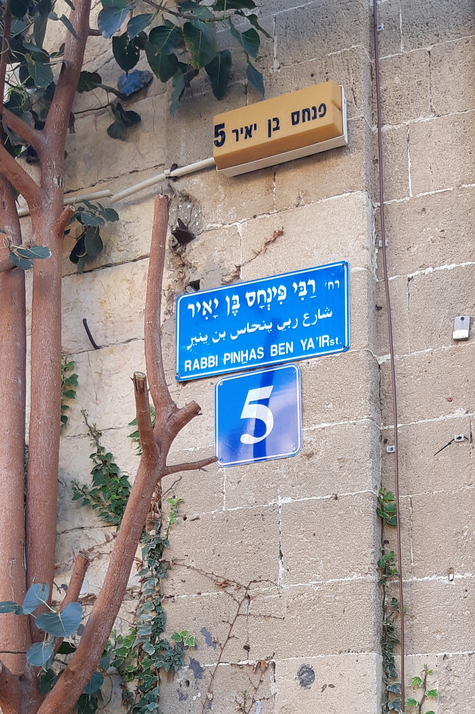 Jaffa, 5 Rabbi Pinhas Ben Ya'ir street